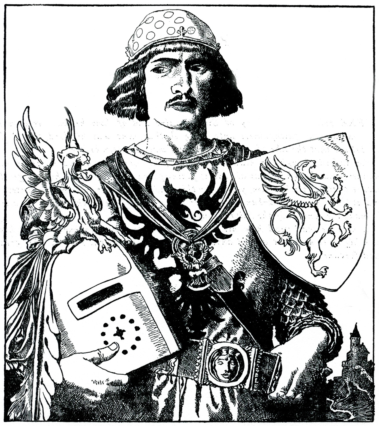 Howard Pyle illustration from the 1903 edition of The Story of King Arthur and His Knights scanned and archived at where it was marked as Public Domain.